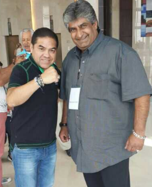 Humberto La Chiquita Meets Syed Nauman Shah - President PPBL WBC Convention Bangkok, Thailand